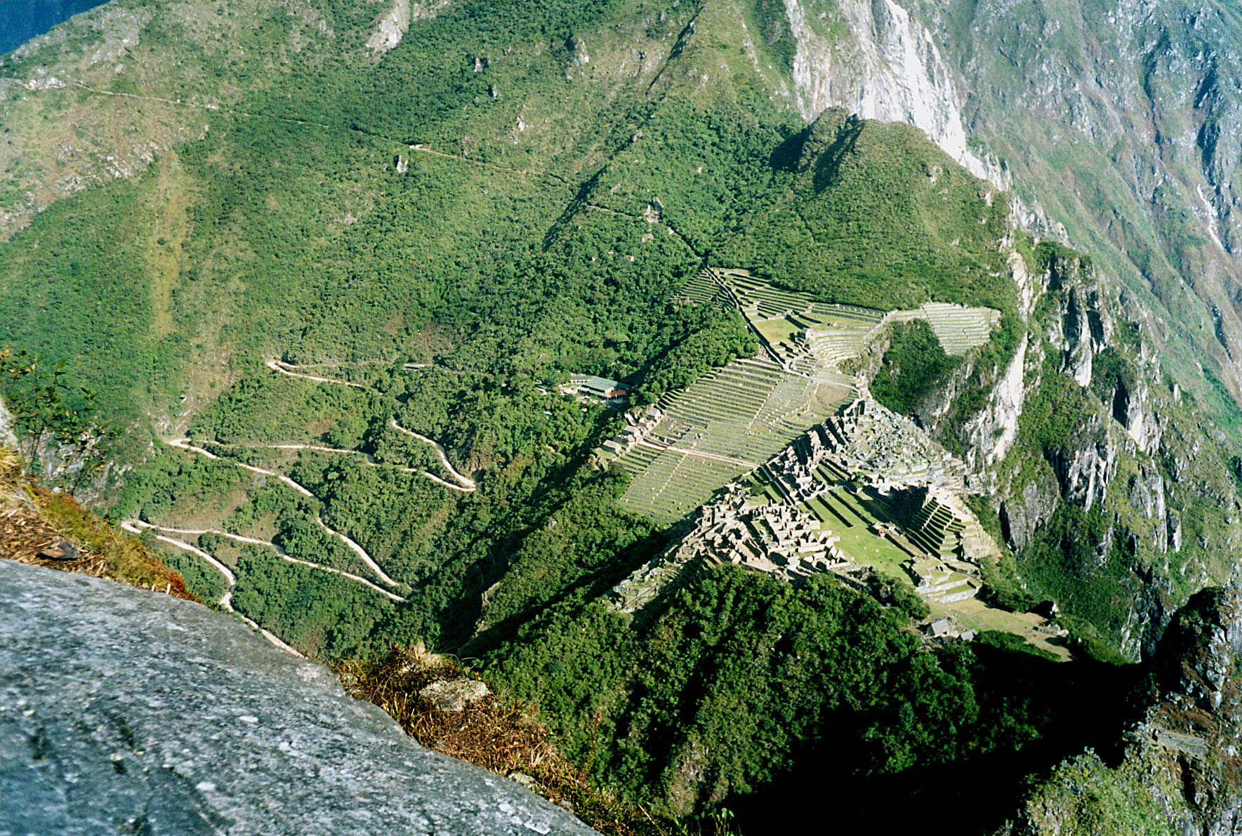 Machu Picchu (The old mountain) seen from the Huayna Picchu (The young mountain). The picture was taken on location in 2002 by Håkan Svensson (Xauxa). - Actually this image shows Machu Picchu city. Machu Picchu mountain is further South - only its base is visible. Machu Picchu city is located on the saddle between mountains Machu Picchu and Wayna Picchu.